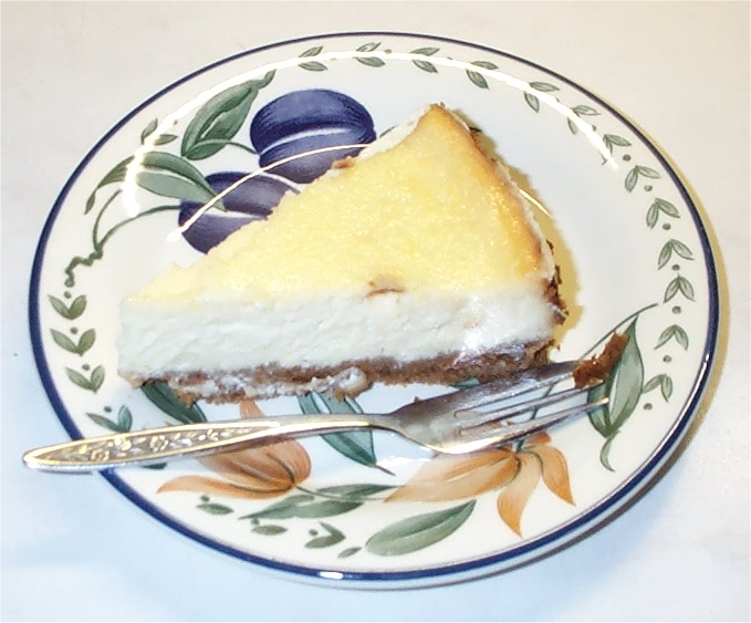 A slice of Homemade Lemon cheesecake.